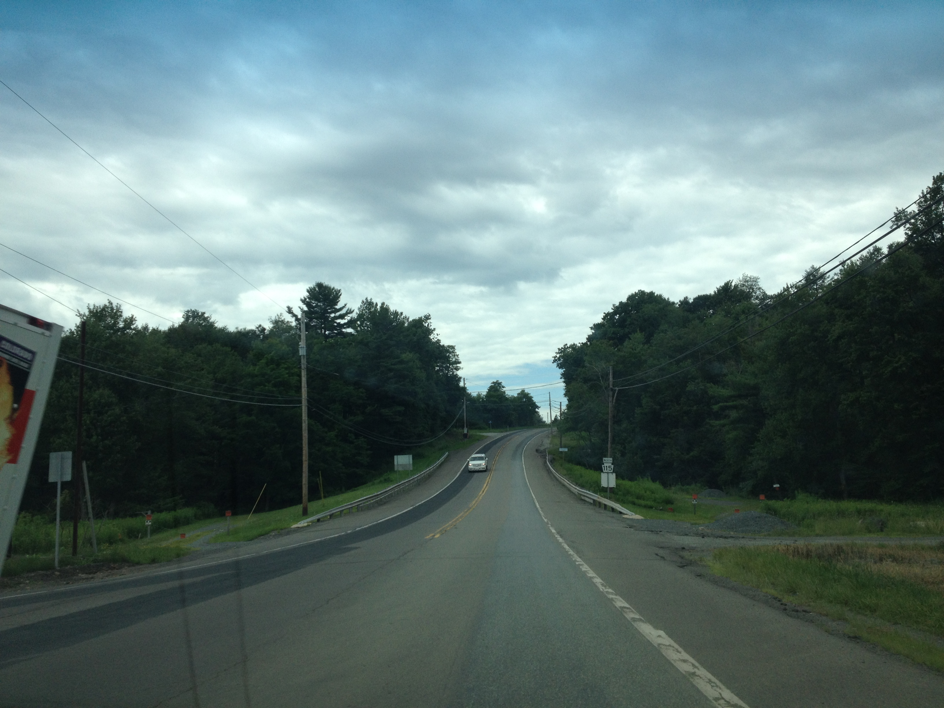 Northbound Pennsylvania Route 115 past the intersection with the northern terminus of Pennsylvania Route 903 in Tunkhannock Township.